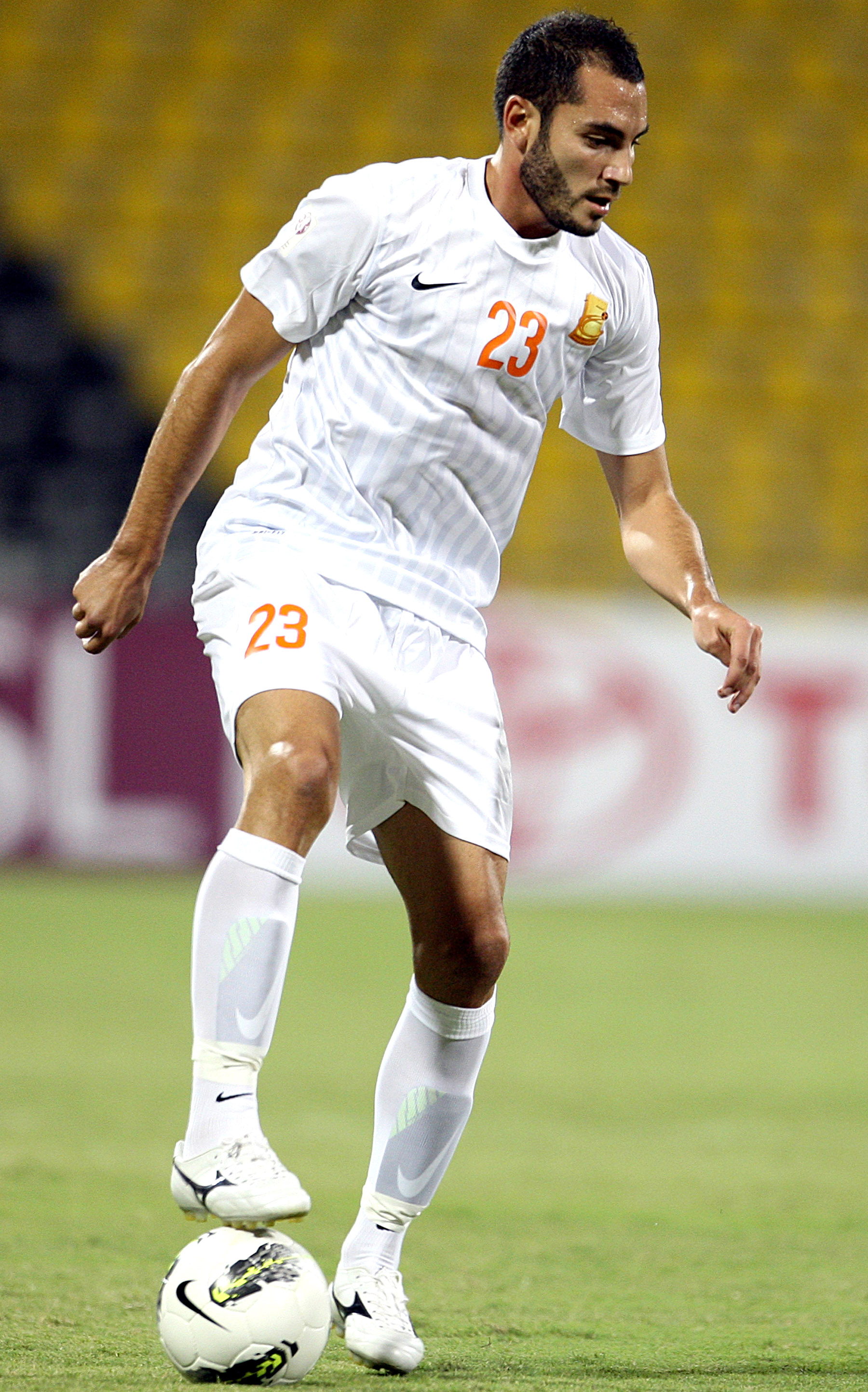 Umm Salal's Mourad Meghni controls the ball during their Qatar Stars League match against Al Rayyan.